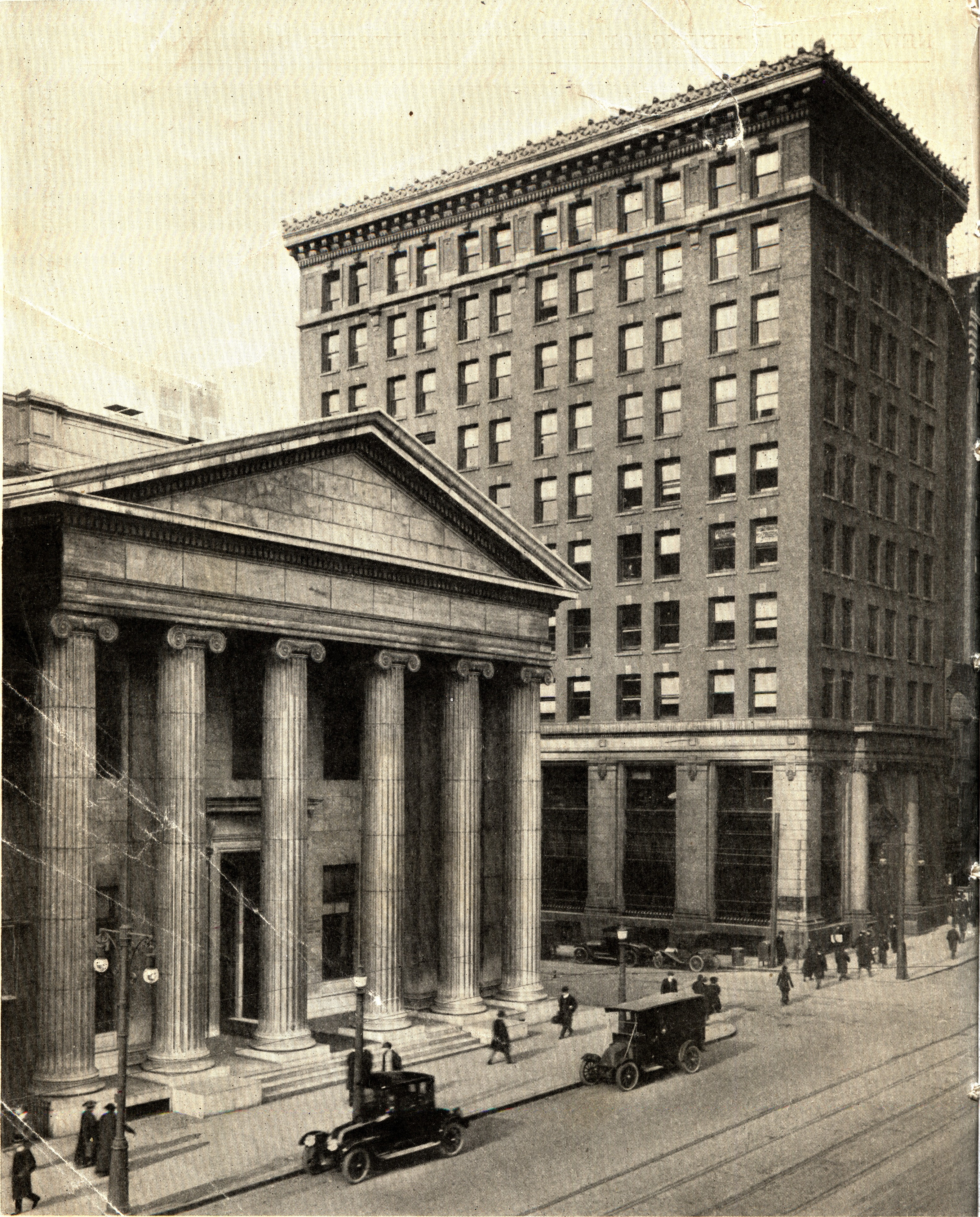 Photo from the Buffalo Express's 1916 booklet "Views of Old-Time Buffalo". Page 32. Caption: "A great banking corner on Main Street, Buffalo, 1916." Left building is labelled "Manufacturer's & Traders National Bank"; right building is labelled "Fidelity Trust Company" (exists today as the Swan Tower).